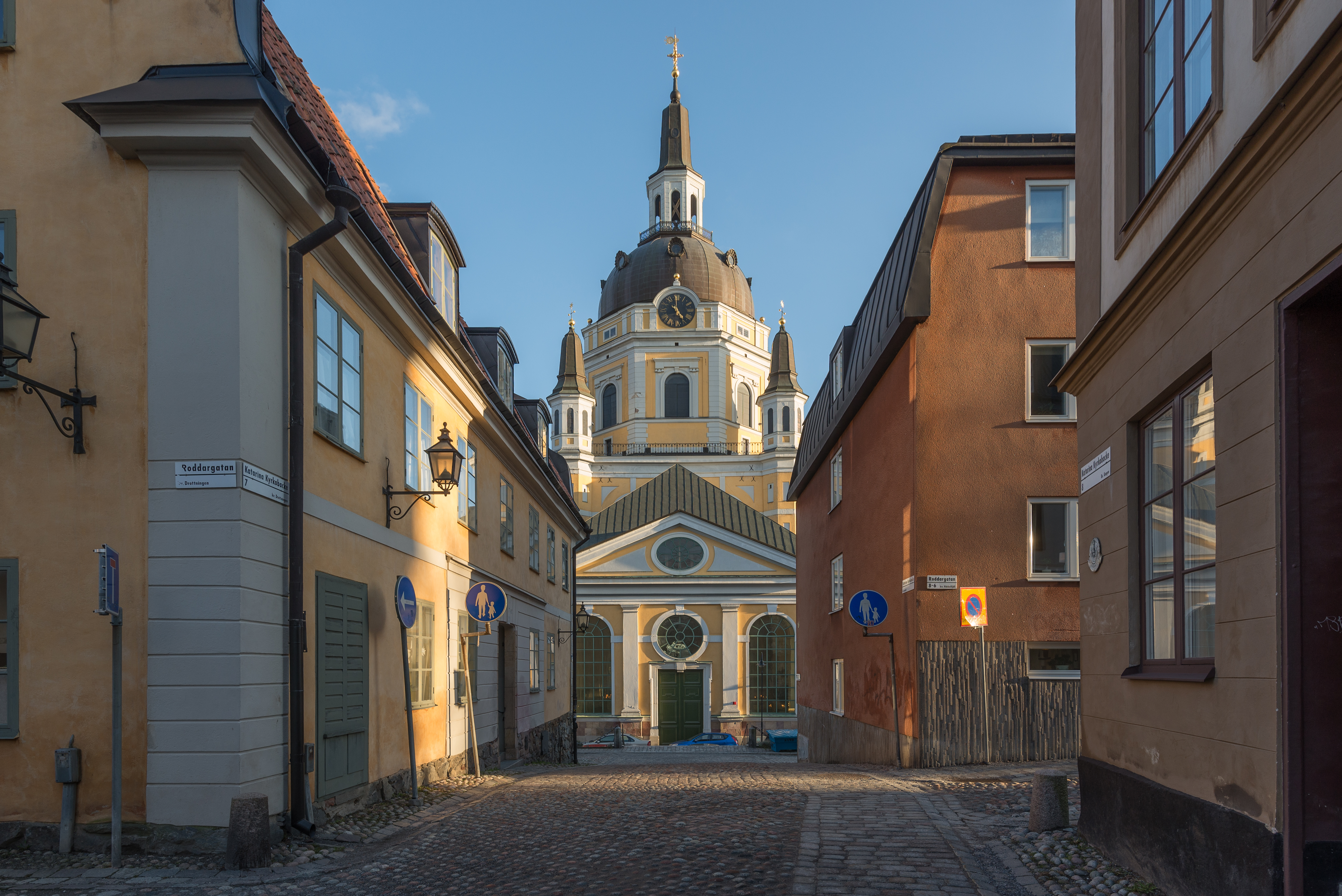 The street Katarina kyrkobacke in Södermalm, Stockholm. In the background, Katarina church.